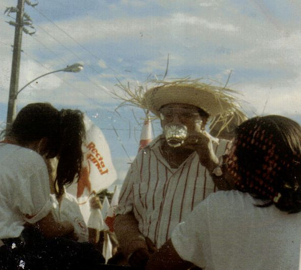 Picture that I took of Angel O. Berrios during political campaign Picture that I took of Angel O. Berrios during political campaign